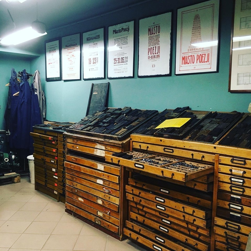 Zecernia Domu Słów